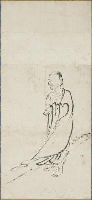 Sakyamuni Descending the Mountain, late 13th century, Japanese, hanging scroll, mounted in frame; ink on paper, 35 3/4 x 16 1/2in. (90.8 x 41.9cm), Seattle Art Museum, Eugene Fuller Memorial Collection, 50.124